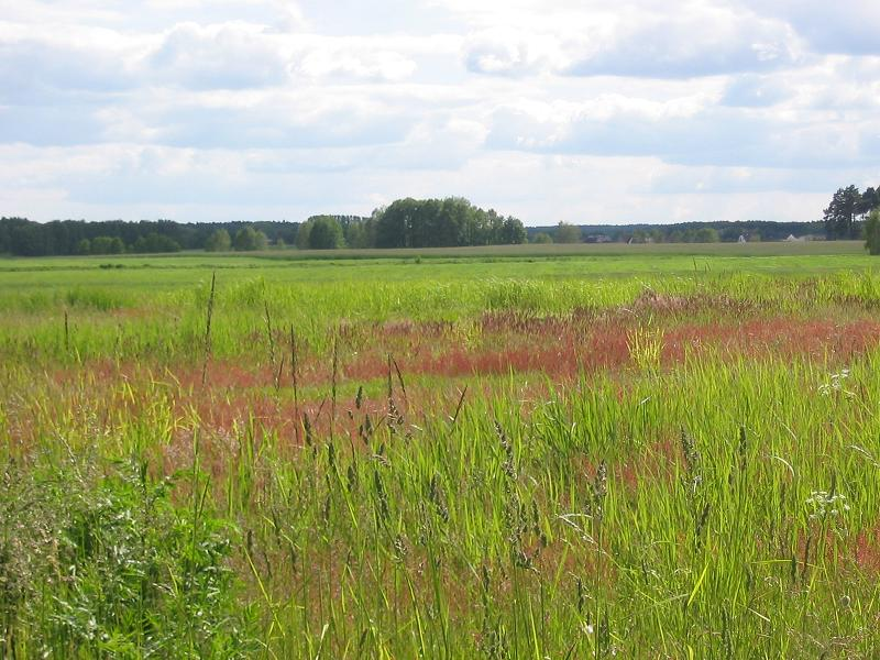 Meadow nearby Lüsse. The village Lüsse is an incorporated part of the town Belzig in Brandenburg, Germany.